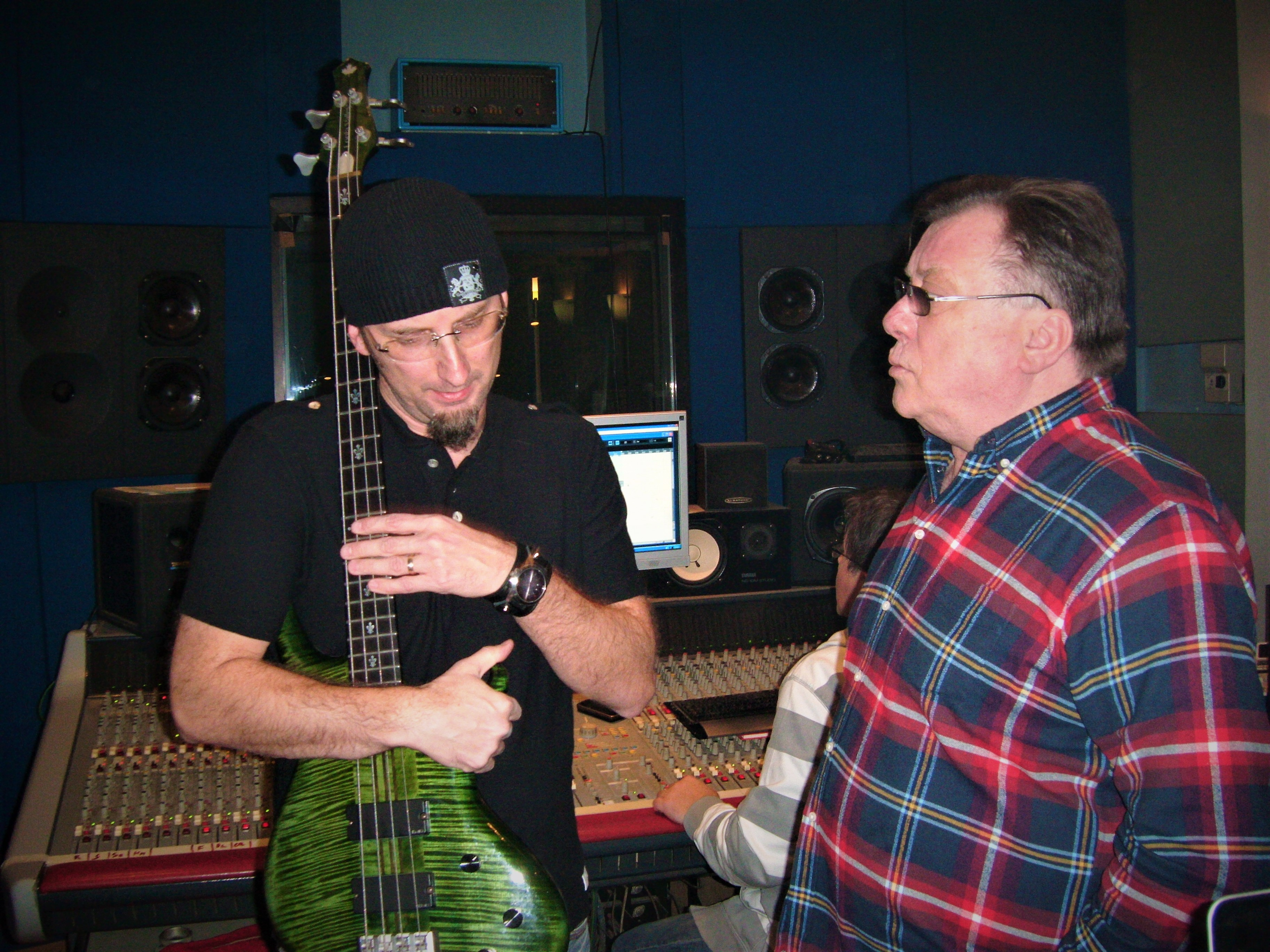 Kresimir Kastelan and Halid Beslic . 2012 recording session for album Romania in JM Sound studio Zagreb